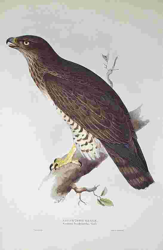 Illustration of Circateus brachydactylus (Vieill) (Short-toed Eagle)